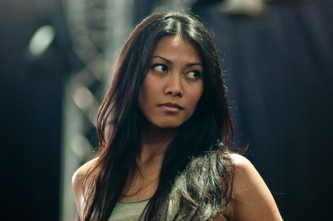 Indonesian singer Anggun at Fete de l'Espoir, Geneva, Switzerland, May 2005